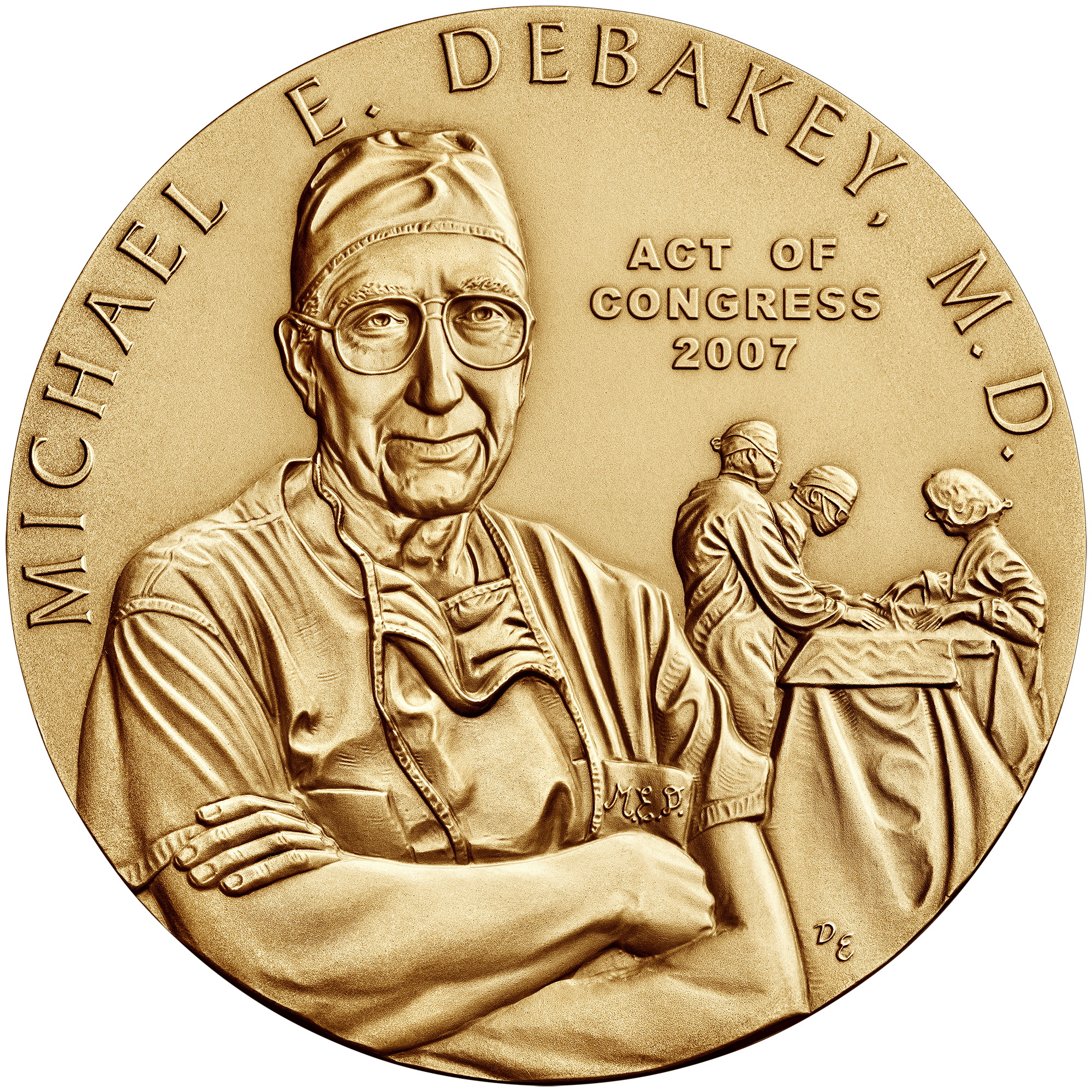 Front and Back of Congressional Gold Medal awarded to Michael E. DeBakey, M.D.